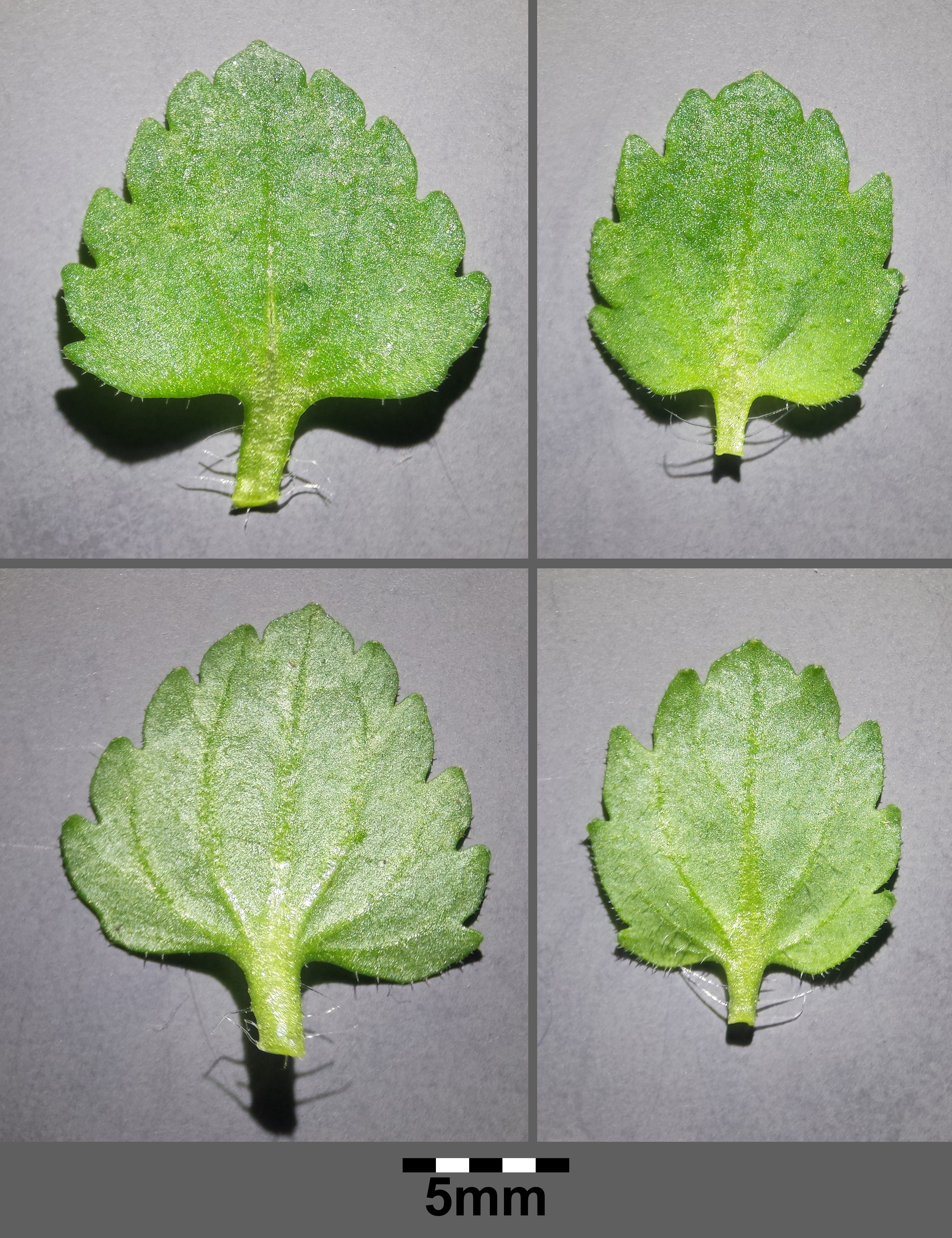 Bracts Above: top sides Below: bottom sides Taxonym: Veronica filiformis ss Fischer et al. EfÖLS 2008 ISBN 978-3-85474-187-9 Location: Unterschleißheim, district München, Bavaria, Germany - ca. 473 m a.s.l. Habitat: ruderal meadows